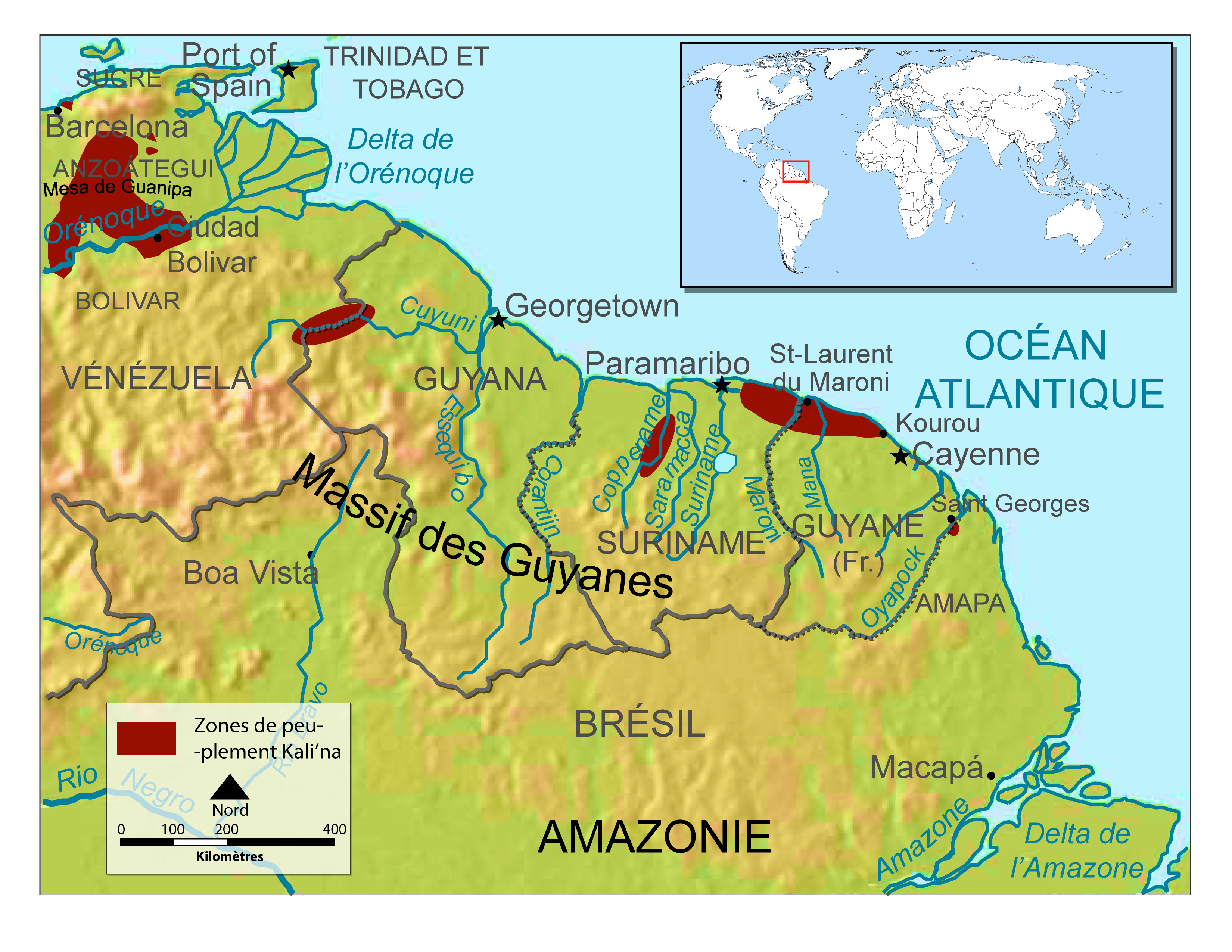 Map of Kalina population, South America